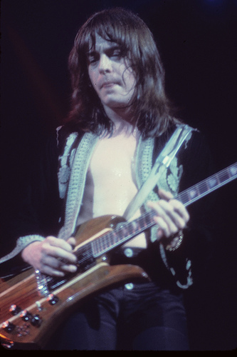 Taken at the New Haven Coliseum around 1977. This is Rick Derringer, a hard rocker from the 1970s.